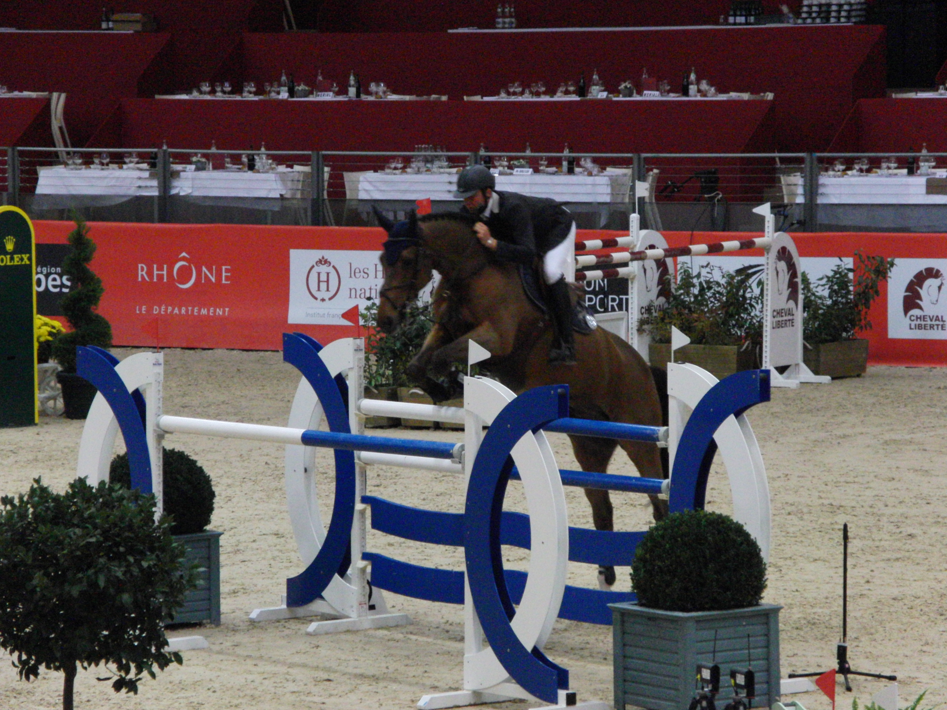 Olivier Guillon and Lord de Theize - CSIW5* Prix Equidia - Equita'Lyon, France